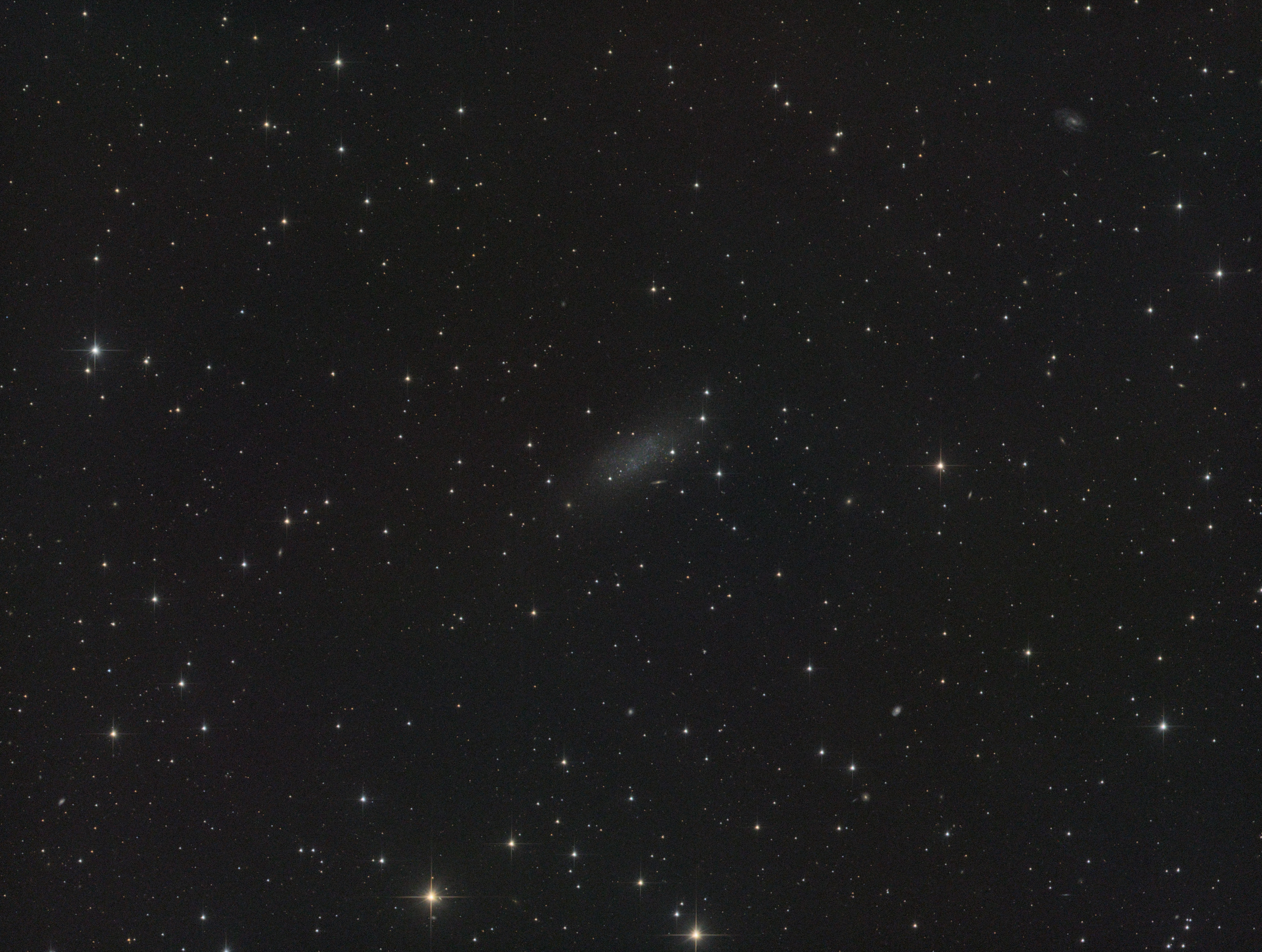 Object: Pegasus Dwarf Irregular Galaxy (Pegasus Dwarf), DDO 216, UGC12613 Optic: NON1000 (200/1000mm Newton f5), GPU Corrector Mount: Skywatcher AZ-EQ6 Camera: ZWO ASI 1600MM-C @ -20°C, Gain 75, Offset 15 Filter: ZWO EFW 7x36mm, Baader 36mm Filter Exposure: total 1,5h, L 11x4min + 4x5min from RGB, R 3x4min, G 4x4min, B 4x4min 327xBias, 48x Darks, 25x Flat(L:R:G:B) Color: RGB Capture: SGP (Sequencing, Autofocus, Dithering, FlatWizard) Guiding: TS-OAG 9mm, ASI120MM, PHD2 Date/Location: 2017-09-21, Kreben Image Processing: Pixinsight: BatchPreprocessingScript (calibrate only), CosmeticCorrection, StarAlignment, Blink, ImageIntegration, ChannelCombination, DBE, PhotometricColorCalibration, MaskedStretch, HistogramTransformation, TGVDenoise for RGB, LRGBCombination PS: Dynamic, 2x maskedDynamic, Levels, maskedMinimumFilter, Curves, Level